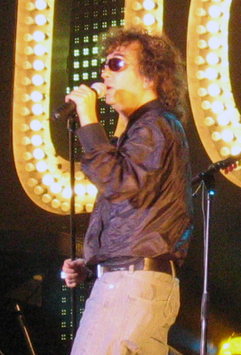 Magnus Uggla during a concert at Mölleplatsen, Malmö, Sweden